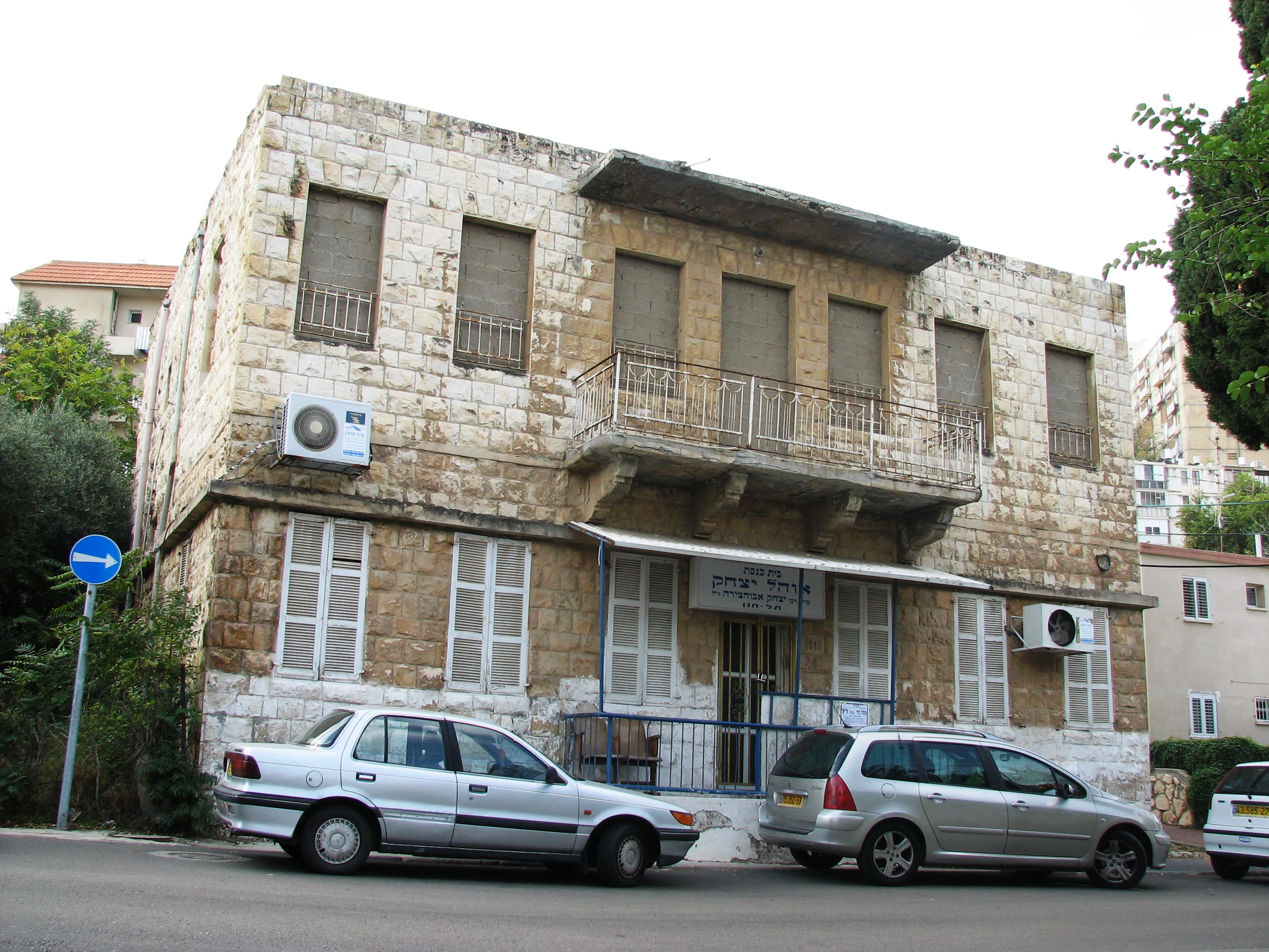 House in Nesher (Tel Hanan). the house is one of the remains of Balad ash-Sheikh, formerly Palestinian village depopulated during 1948 Arab-Israeli War